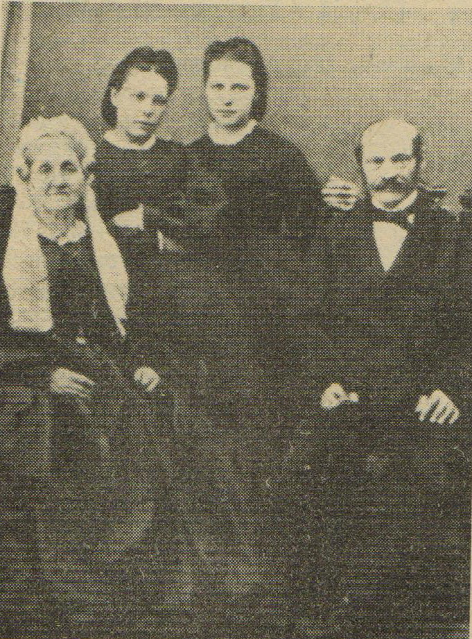 Yamont family. The parents are Maryja (left) and Elena. A photograph taken during a visit to Siberian exile.